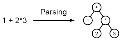 Example of Parsing